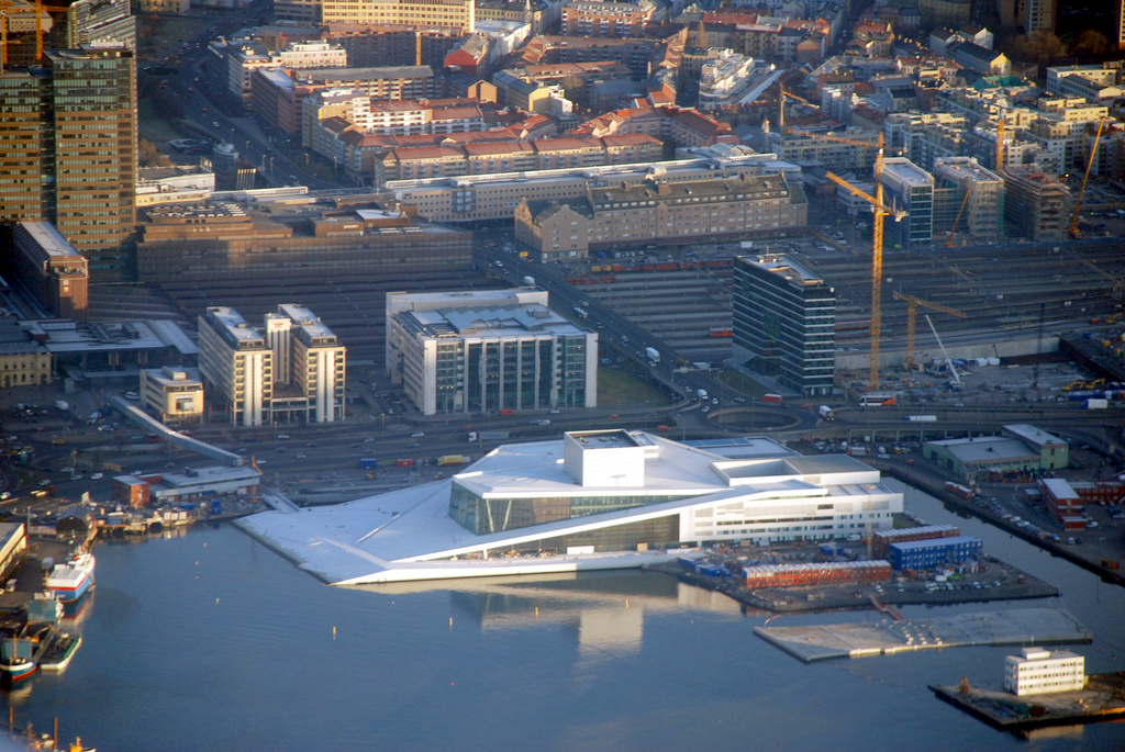 Bjørvika in Oslo. Buildings in the picture Oslo Opera House/Operahuset i Oslo and "Sukkerbiten"